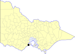 Location of the City of South Barwon within Victoria.